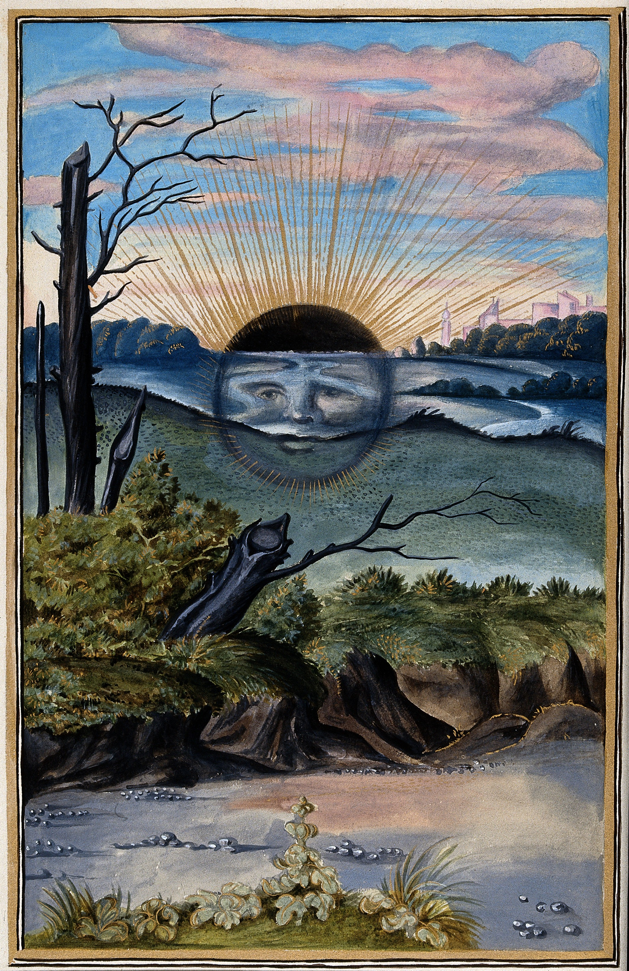 A black sun with a face descends behind the horizon of a marshy landscape; representing the state of putrefaction in alchemy; from Salomon Trismosin's 'Splendor solis'. Watercolour painting. Iconographic Collections Keywords: Salomon Trismosin